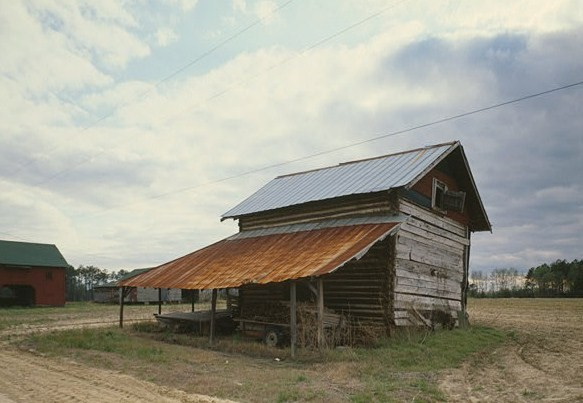 Smith Tobacco Barn, Dillon vicinity, Dillon County (South Carolina)